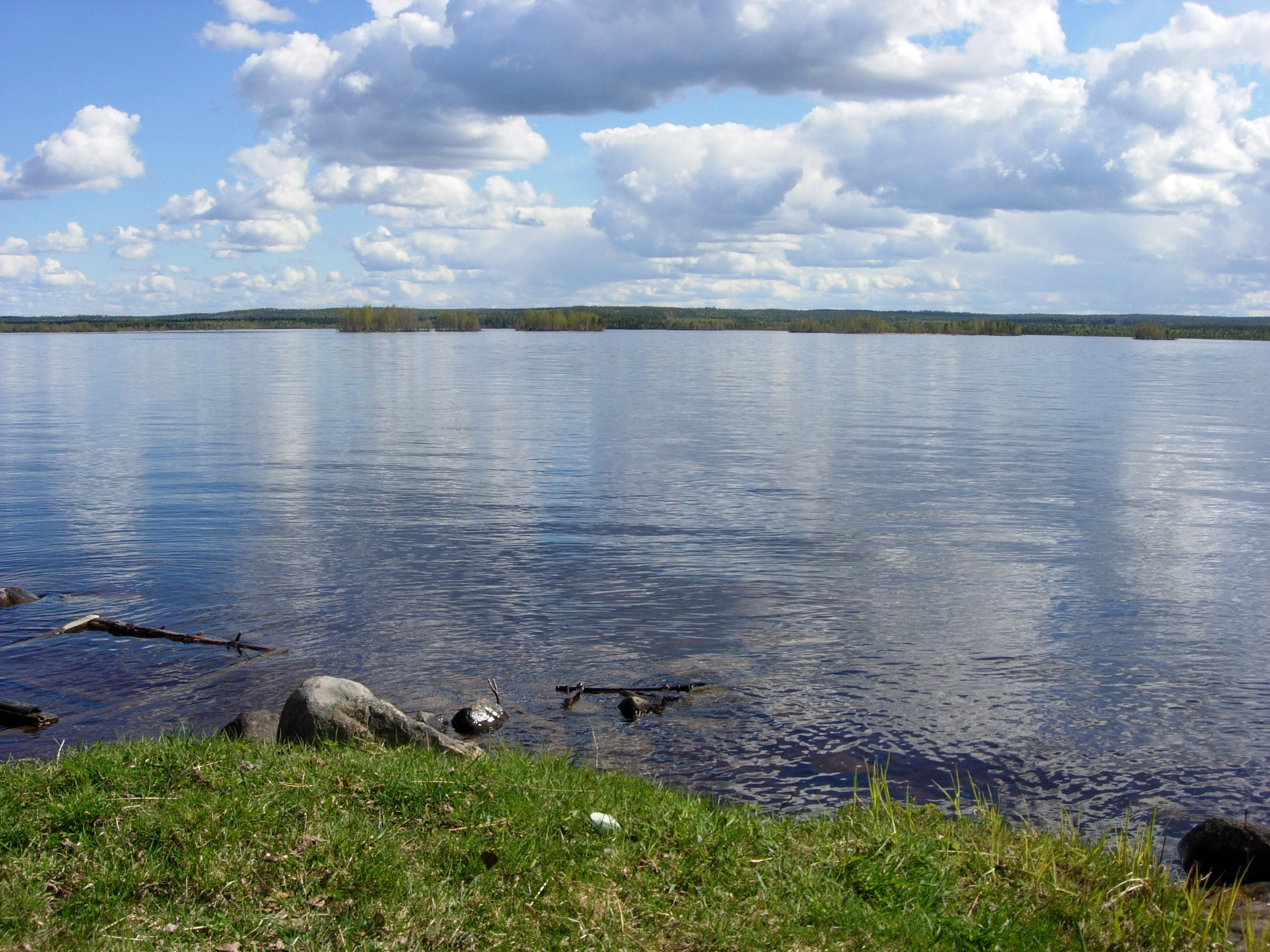 River Kemijoki by Muurola, some 30 kilometres downstream from the centre of Rovaniemi, Finland. The river is 2–4 kilometres wide at this point.